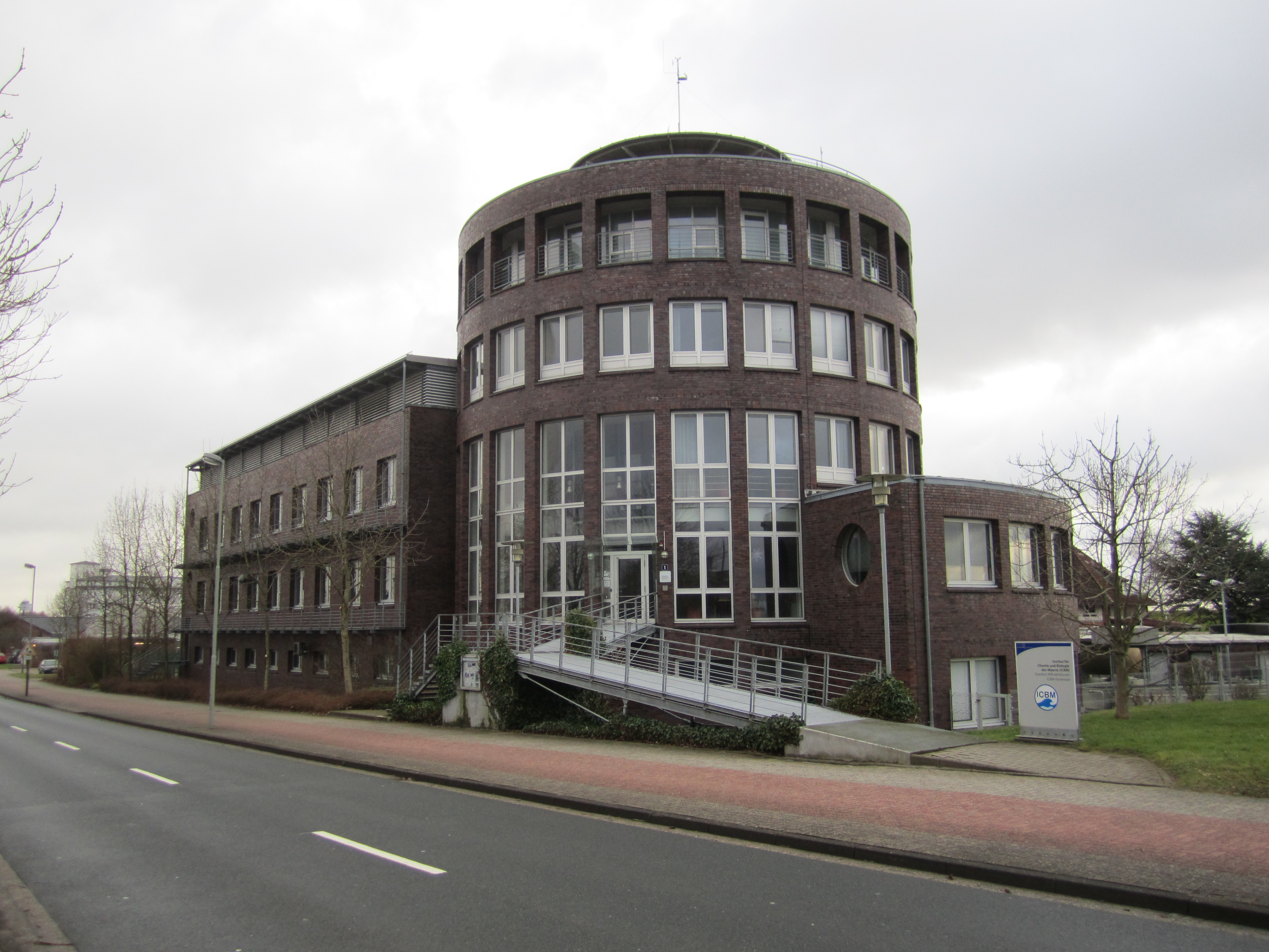 Research institute for chemistry and biology of the sea, Wilhelmshaven, Germany.